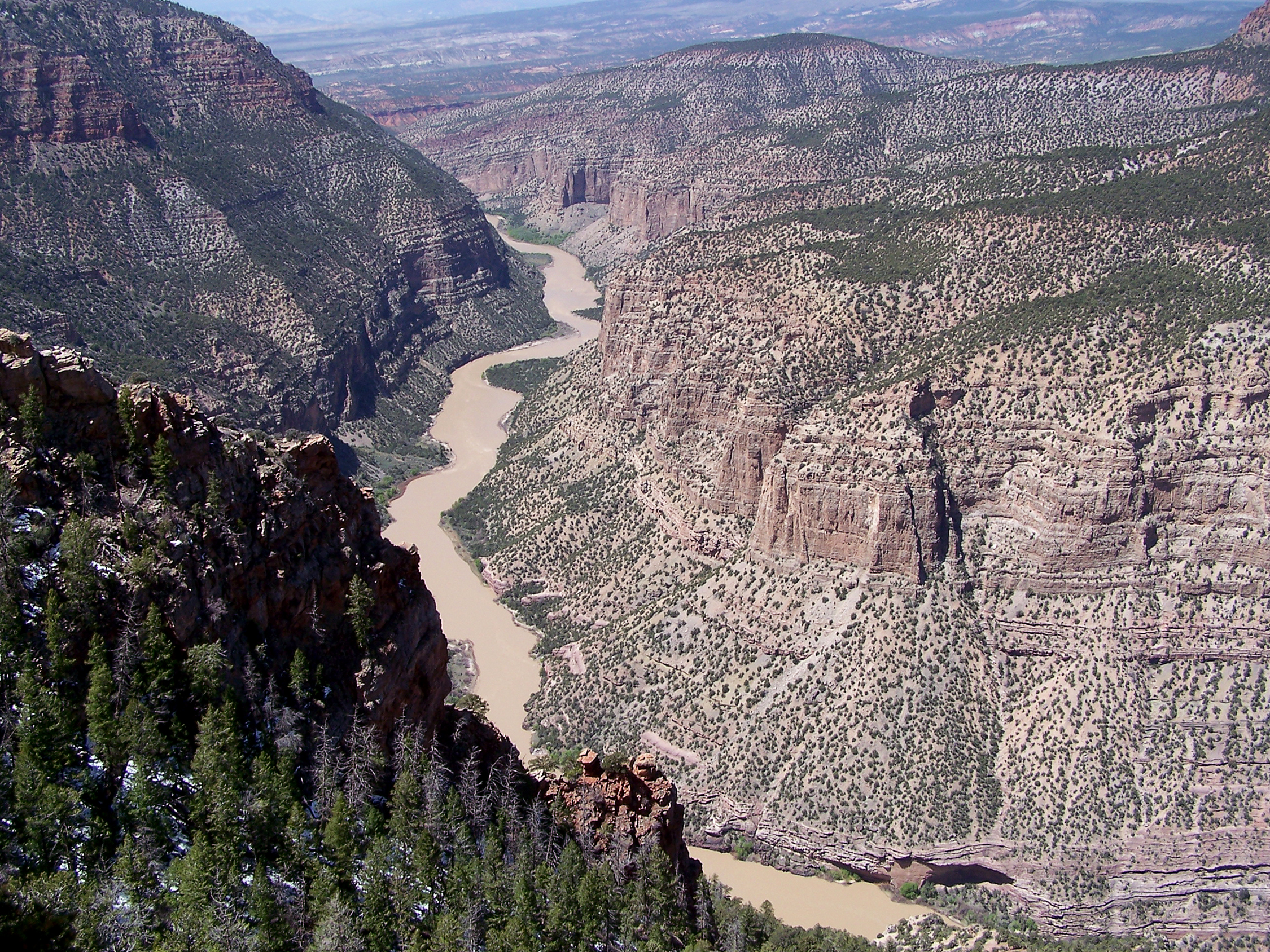 Whirlpool Canyon in Dinosaur National Monument, Utah, USA